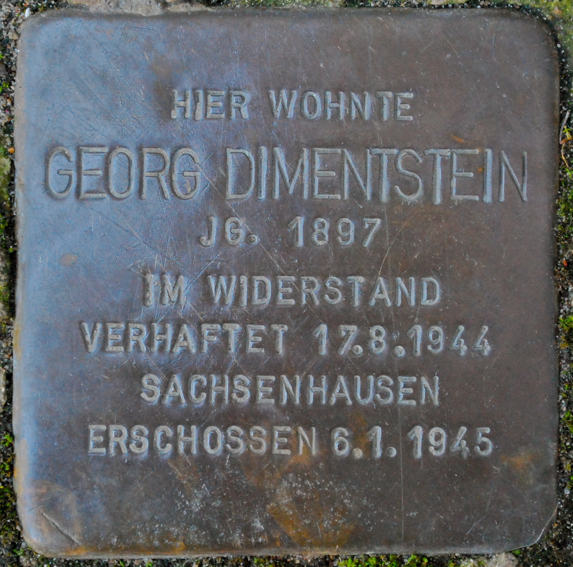 "Stolperstein" (stumbling block), Georg Dimentstein, Grellstraße 18, Berlin-Prenzlauer Berg, Germany